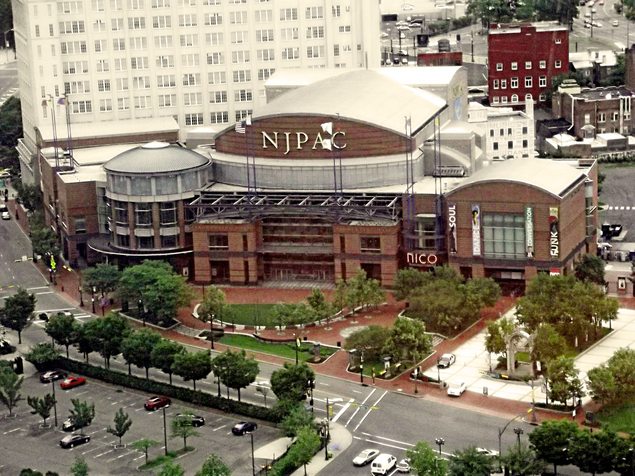 A view of the entire New Jersey Performing Arts Center building in Newark from the Newark Club.